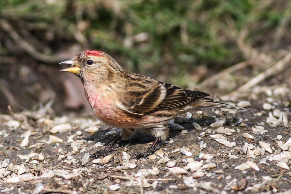 A male Lesser Redpoll Acanthis cabaret in Horsham, UK.